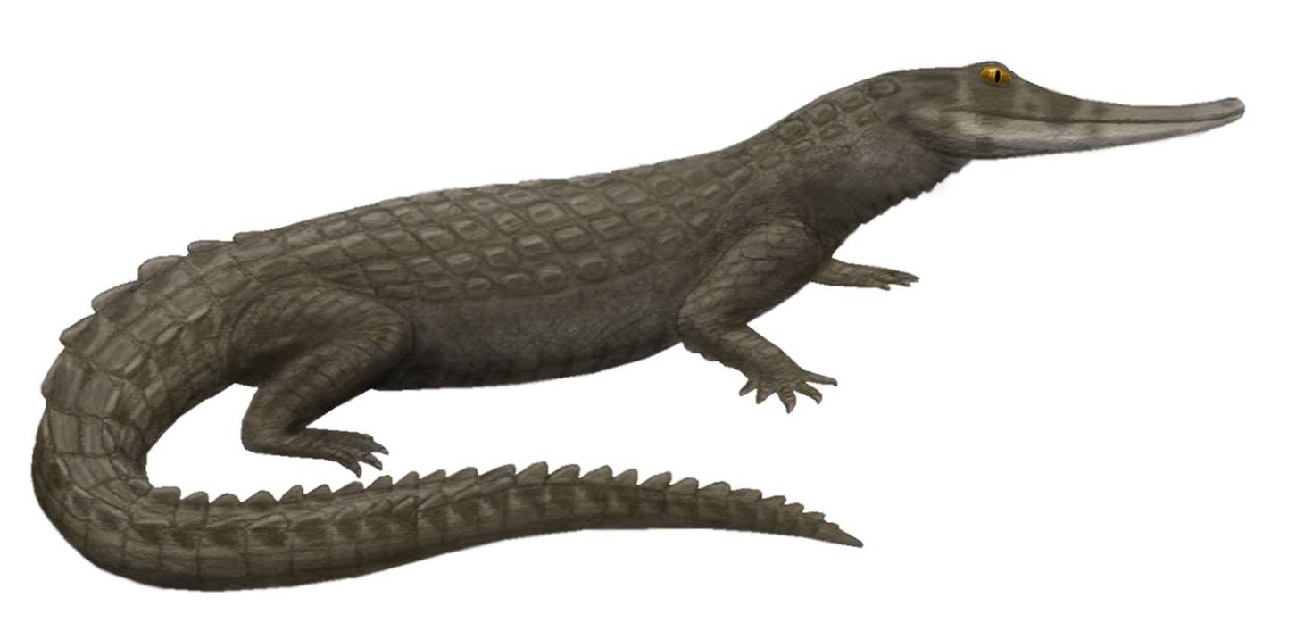 Life restoration of Isisfordia duncani.